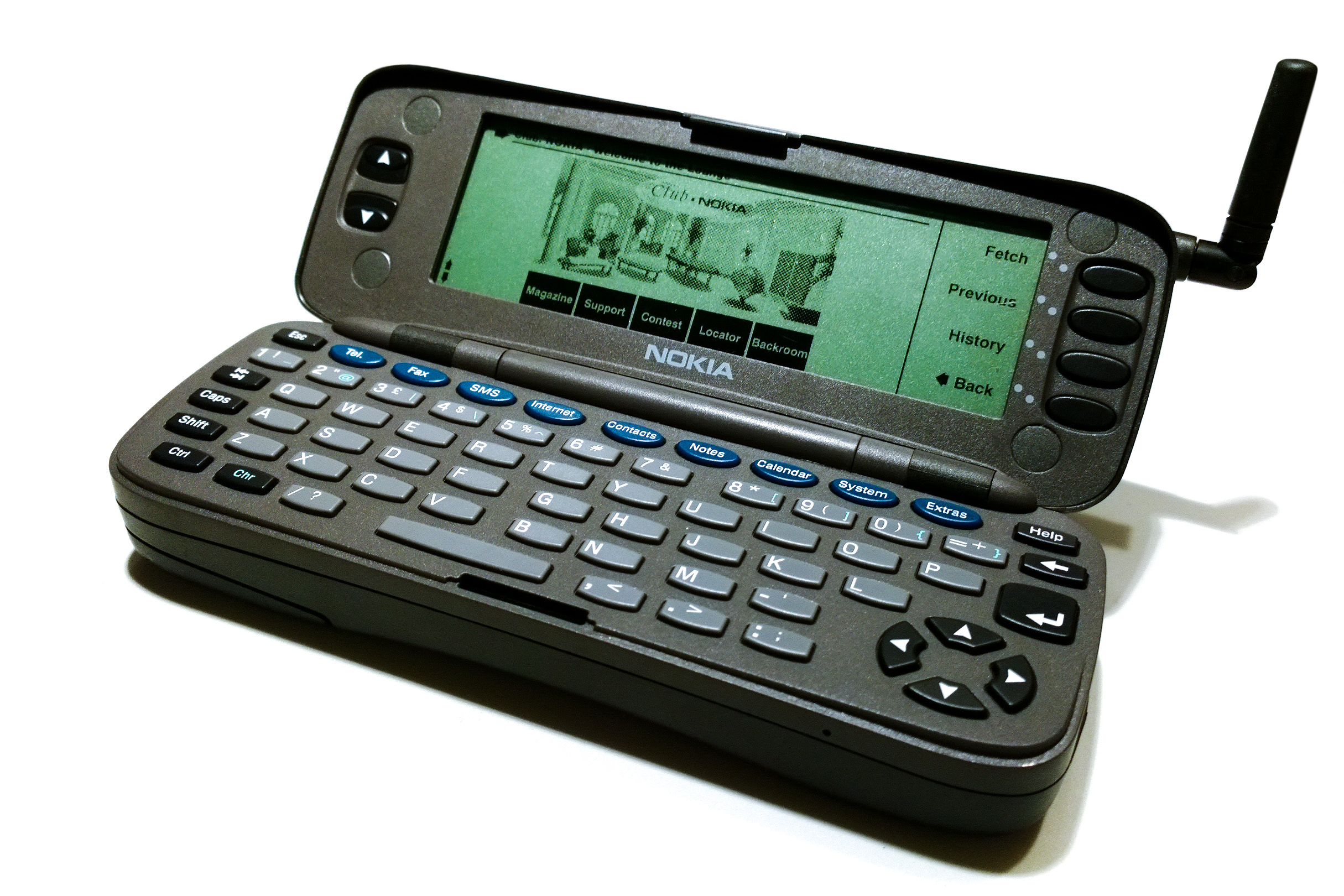 Nokia Communicator 9000 Opened - Derivative of image by textlad on flickR (